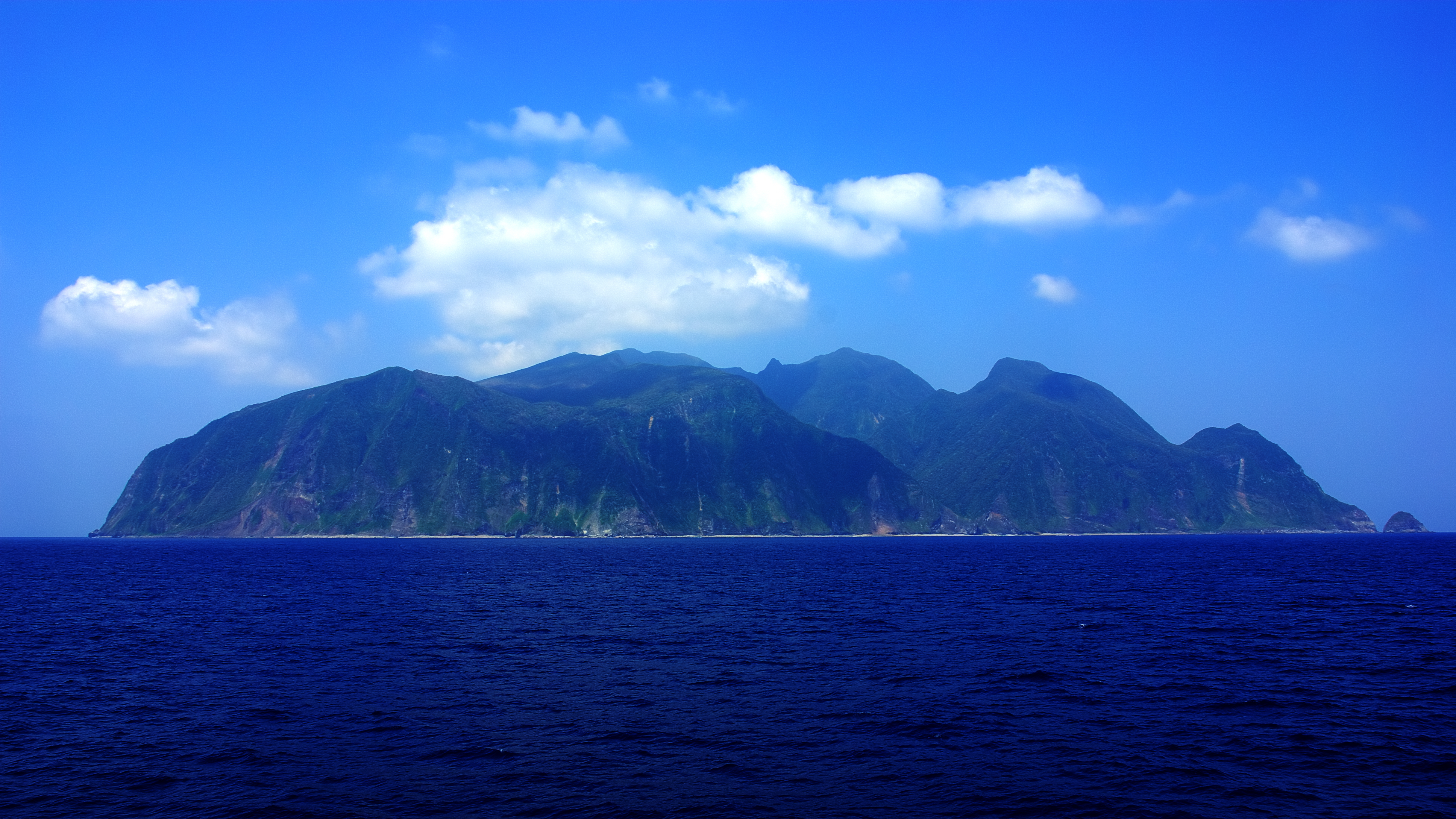 The whole view of Mikurajima island